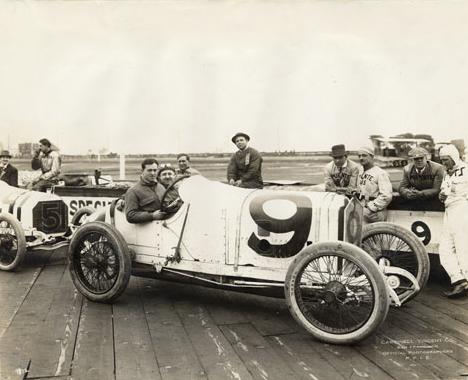 Dario Resta, winner of the 1915 American Grand Prize and Vanderbilt Cup at the Panama-Pacific International Exposition in San Francisco.